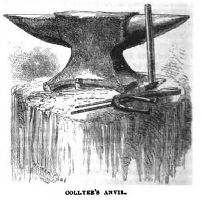 Anvil brought to Chicago from Pennsylvania by Rev. Robert Collyer, now at Second Unitarian Church, Chicago). Engraving from an article by Collyer in Harpers Monthly no. 284 (January, 1874, pp. 819-830), printed in that volume on p. 830.